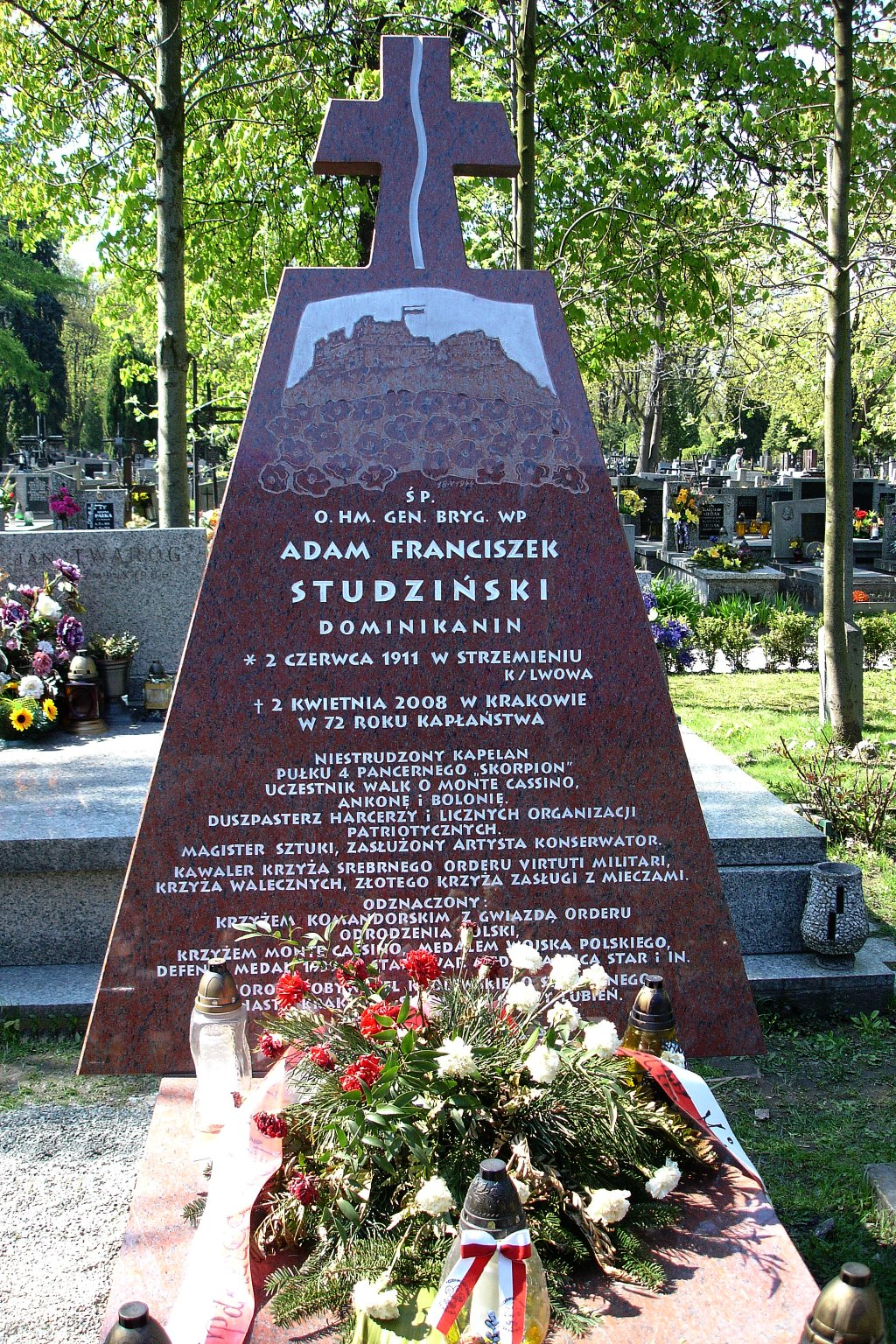 Gen. Adam Franciszek Studzinski tombstone on Rakowicki Cemetery.